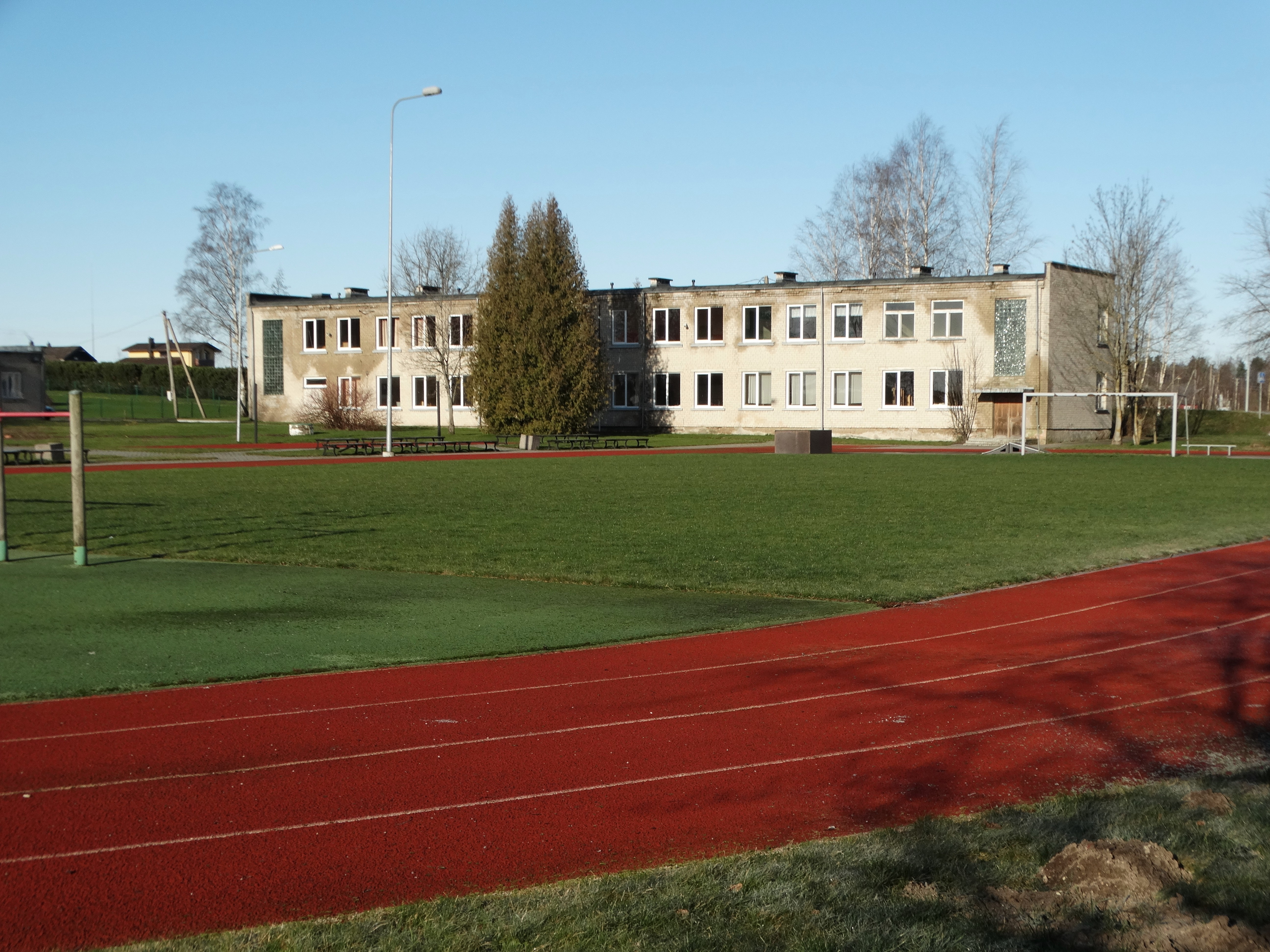 School, Varkaliai, Plungė district, Lithuania